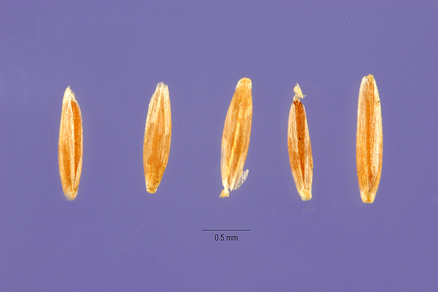 Brown Bentgrass. Family Poaceae. Photograph of seeds. Collected in Asia.